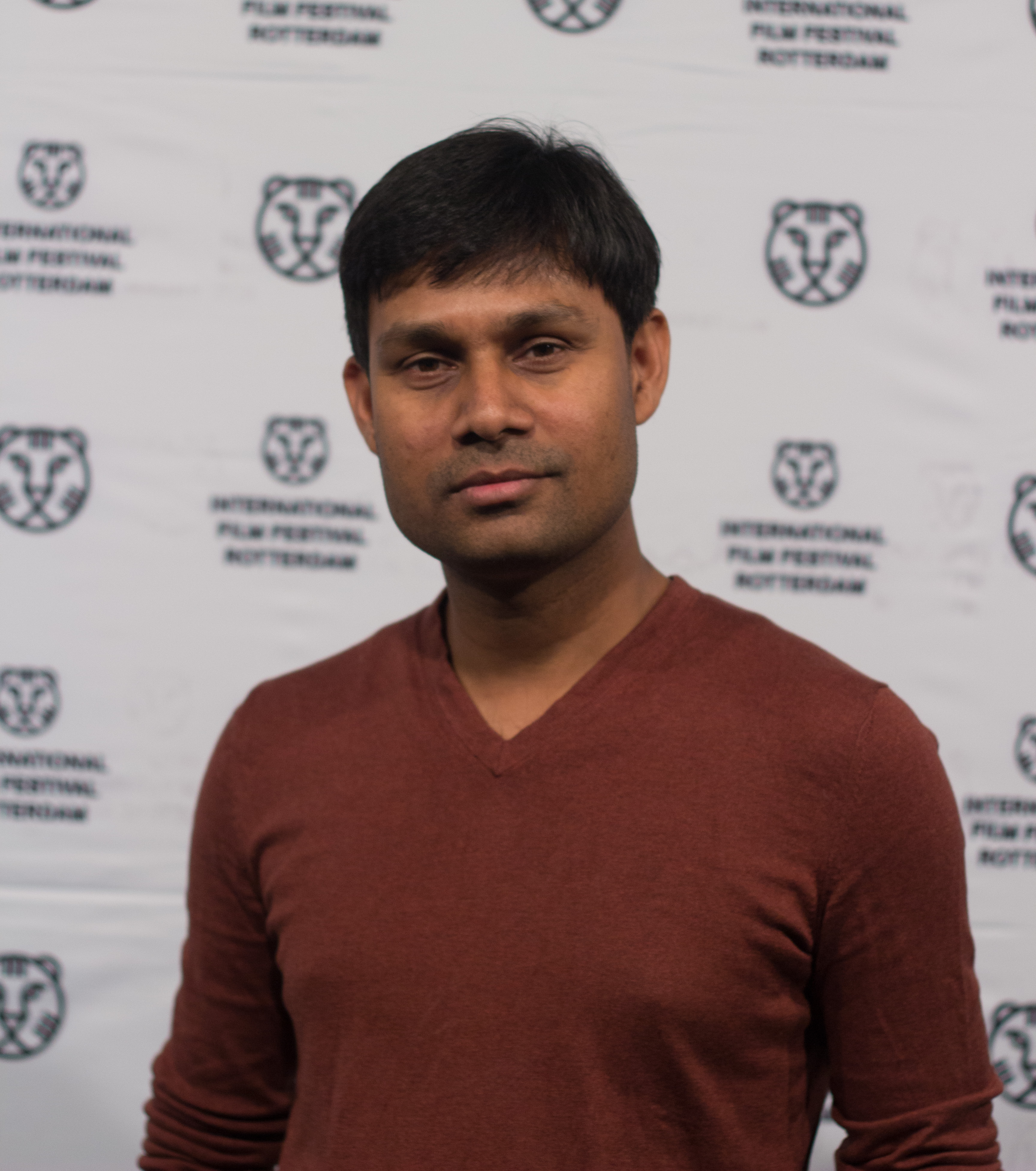 Deepak Rauniyar at the premiere of White Sun